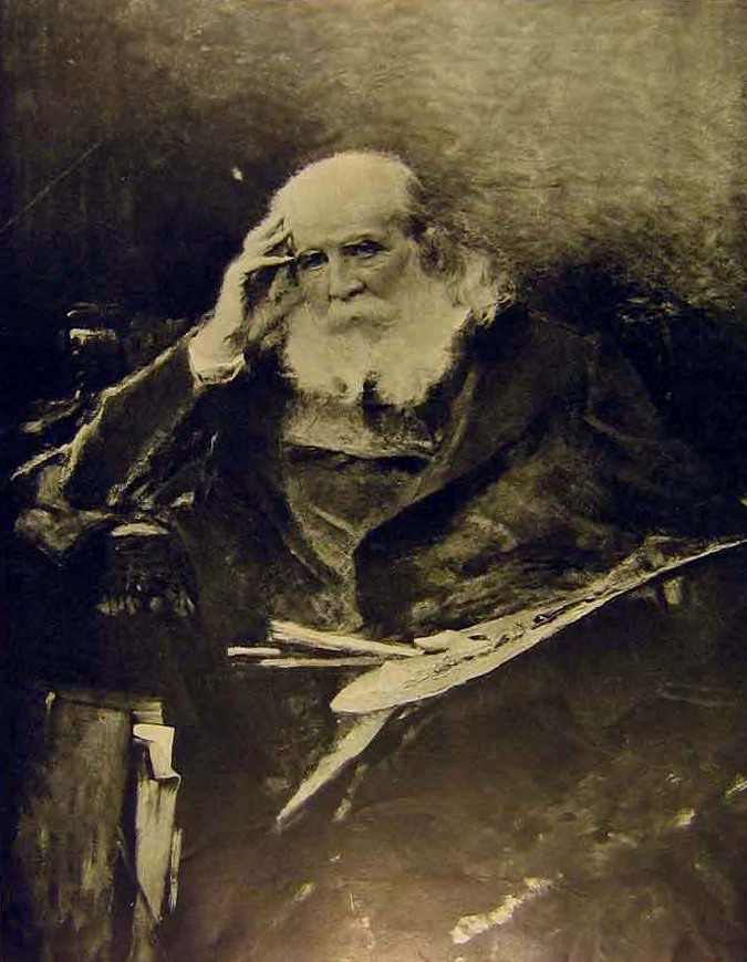 Portrait of Ernest Hébert (1817-1908) by Aimé Morot (1850-1913) on the cover of L'Illustration, 1905.